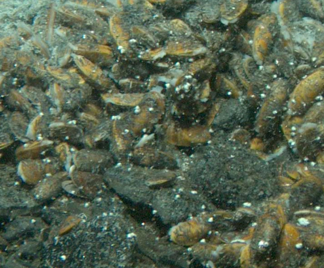 the mussel habitat with the bathymodiolin mussel Bathymodiolus thermophilus